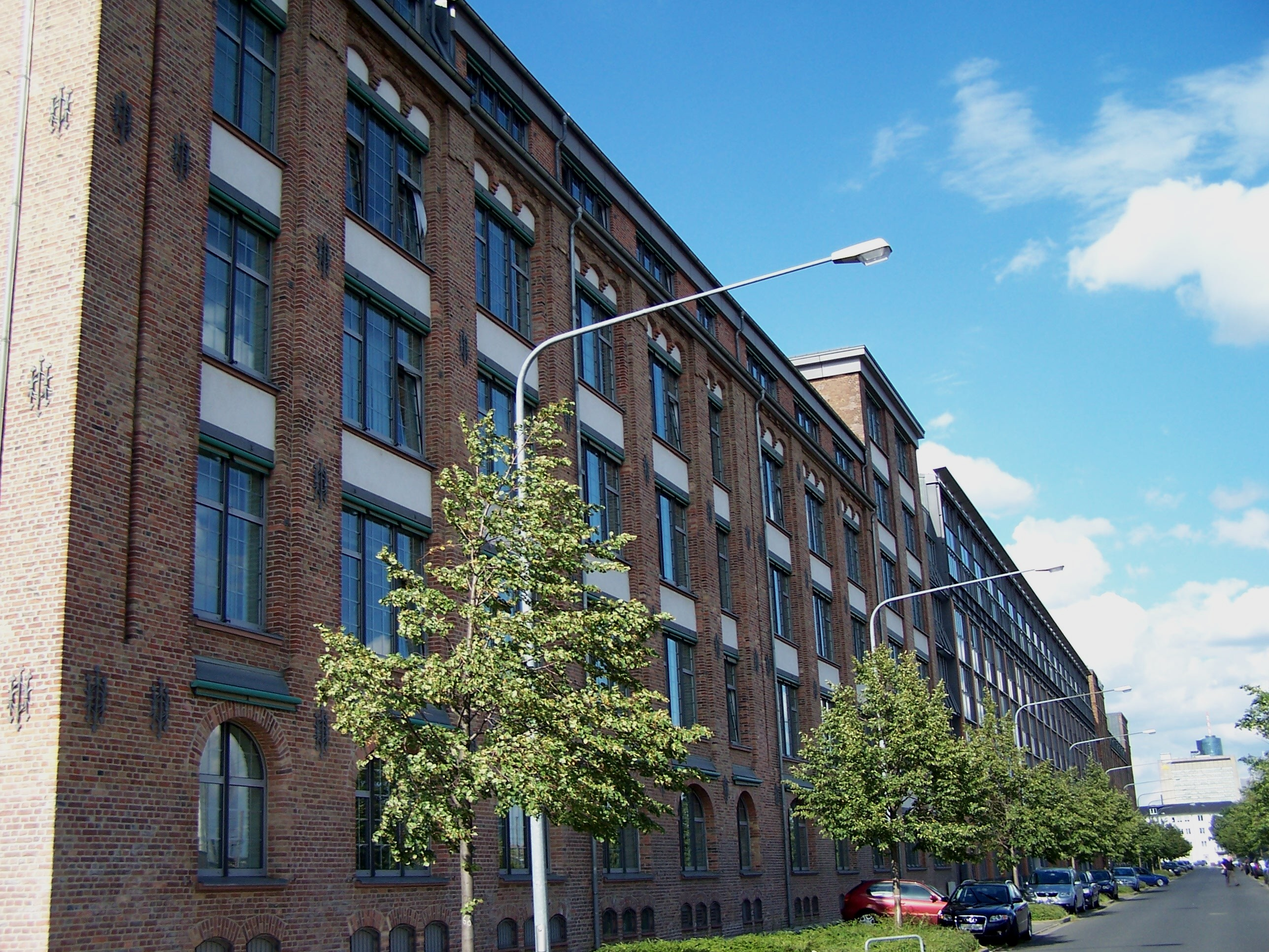 former building of Adlerwerke in Frankfurt on Main seen from Weilburger Street